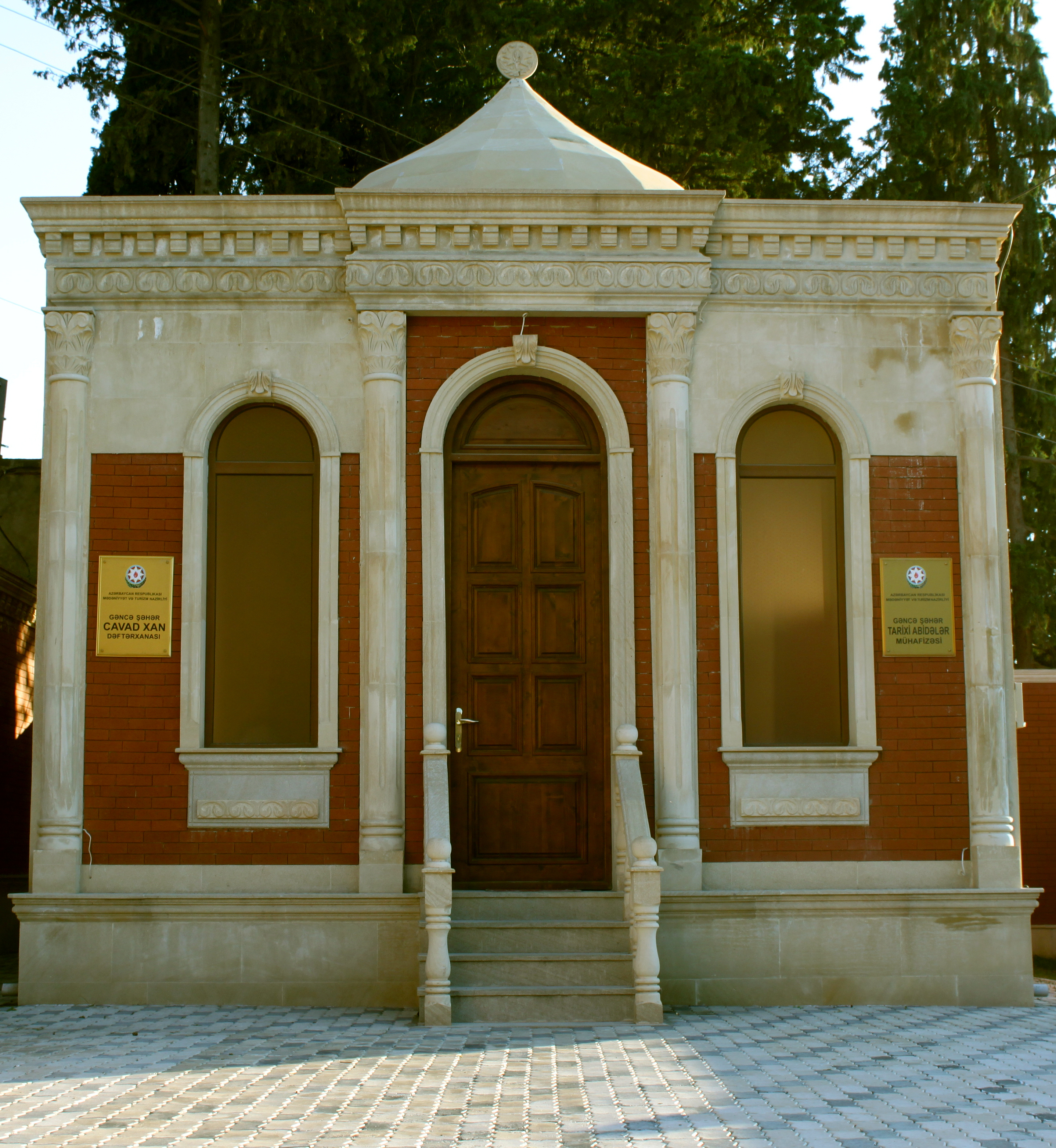 The Office of Javad Khan